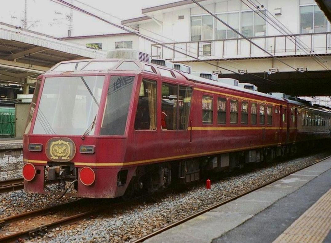 East Japan Railway Type PC12 passenger car based resort train "Oriental salon". A train chartered for a group (Japan)． I photograph it from a home at Tohoku Line Kuki Station． 国鉄12系客車改造の団体専用列車オリエントサルーン。 東北本線久喜駅にて、ホームより撮影。